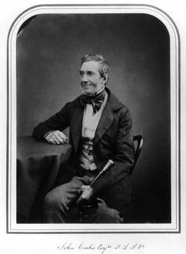 Photograph of the English entomologist John Curtis The swagger stick may the photograph was taken when he became President of the Entomological Society in 1855. Albumen print, arched top, 1855 7 3/4 in. x 5 3/4 in. (197 mm x 146 mm). Purchased, 1979. Primary Collection. National Portrait Gallery. NPG P120(36)